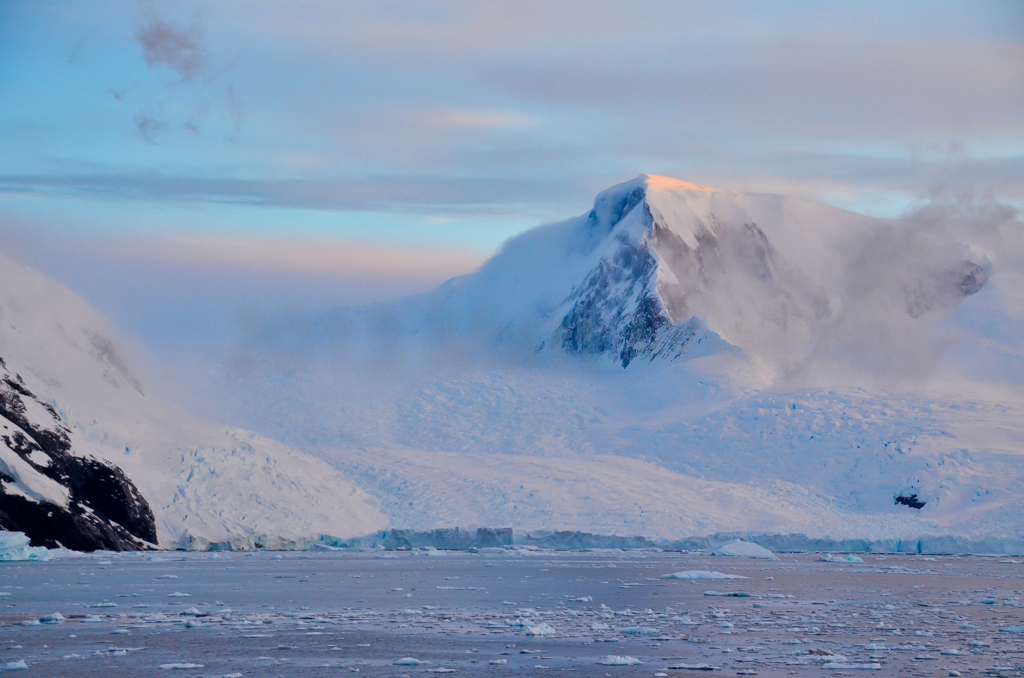 View of Mount Inverleith as seen from Neko Harbor at 4:53PM March 9, 2012. The peak of Mount Inverleith is 1,495 meters (4904 feet) above sea level, pictured at bottom of the photo and is 5 miles distant from the shoreline. The Grubb Glacier pictured at center